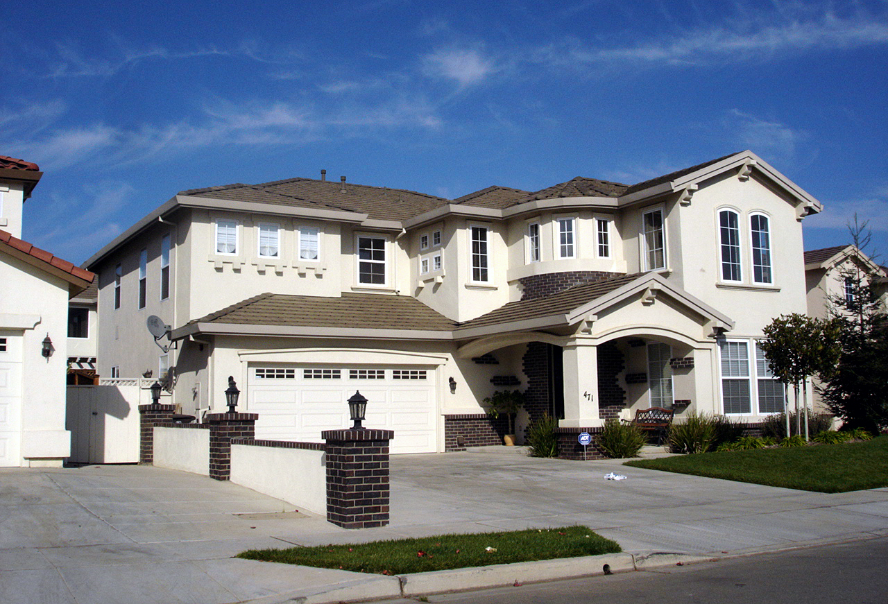 Large suburban house located on Arcadia Way in Salinas, California.